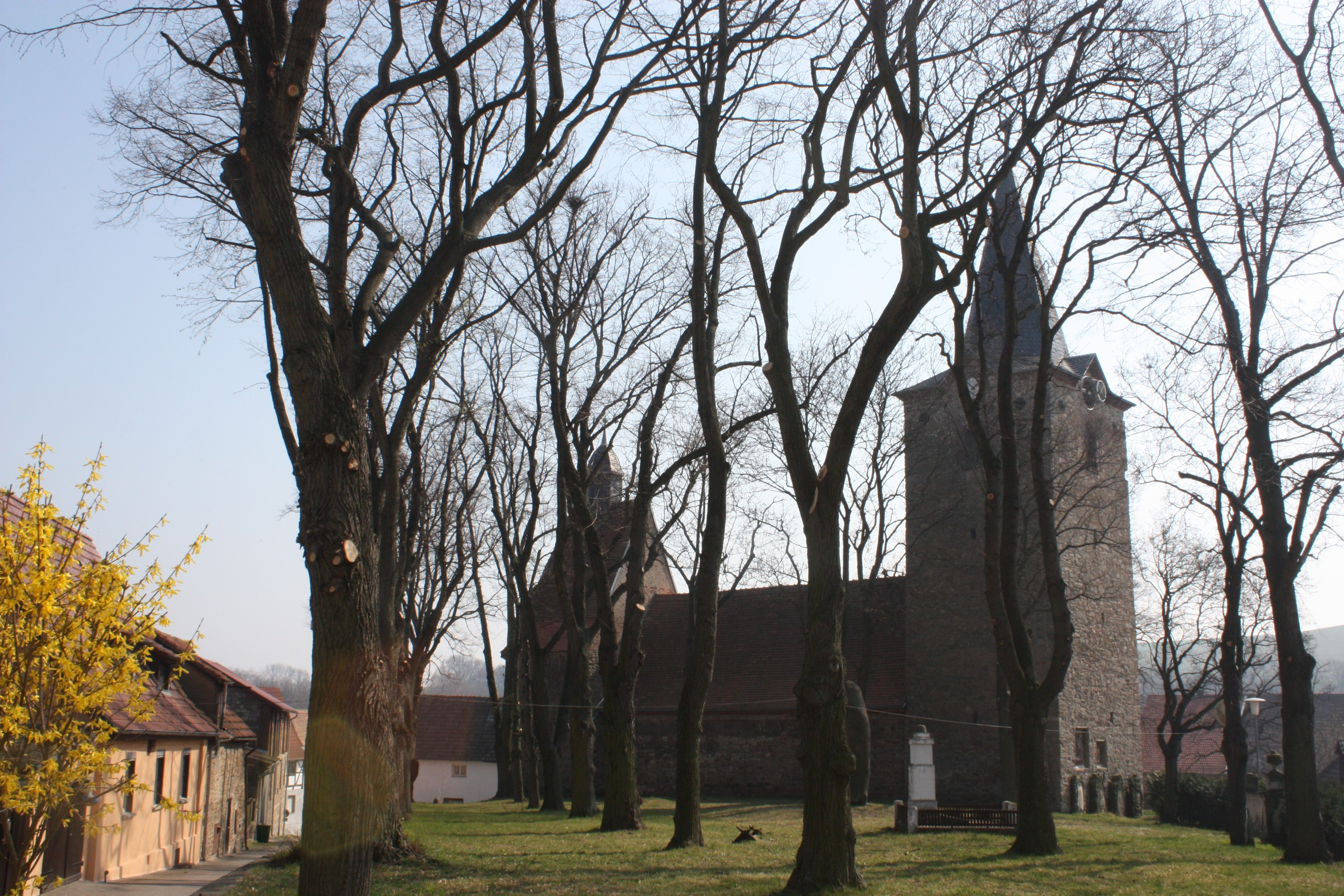 Welbsleben (Arnstein), the village church